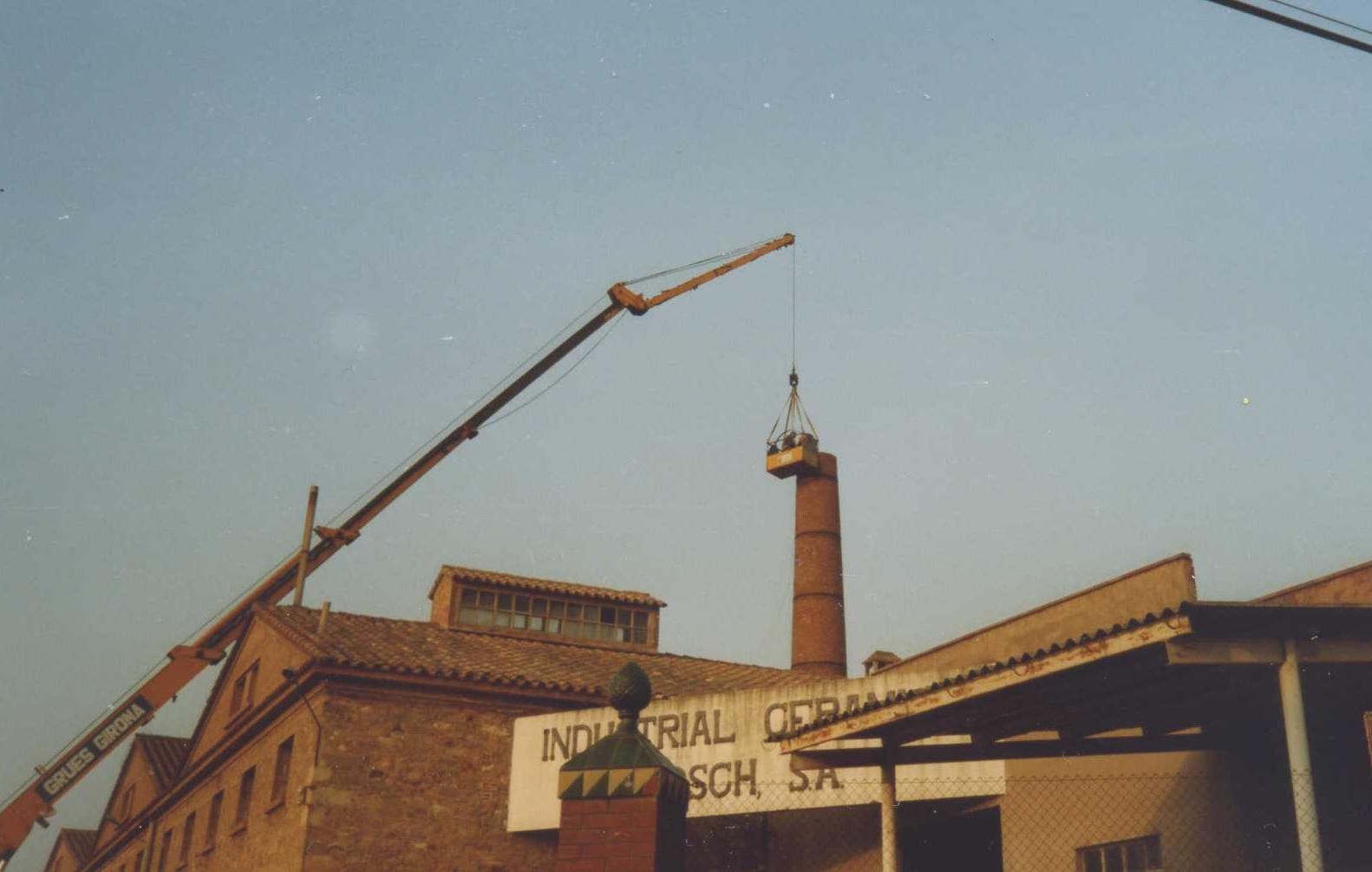 Pathologies of industrial chimneys